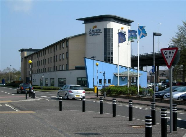 Express Holiday Inn At Glasgow Airport One of the Holiday Inn chain, commonly found at airports and other travel sites.